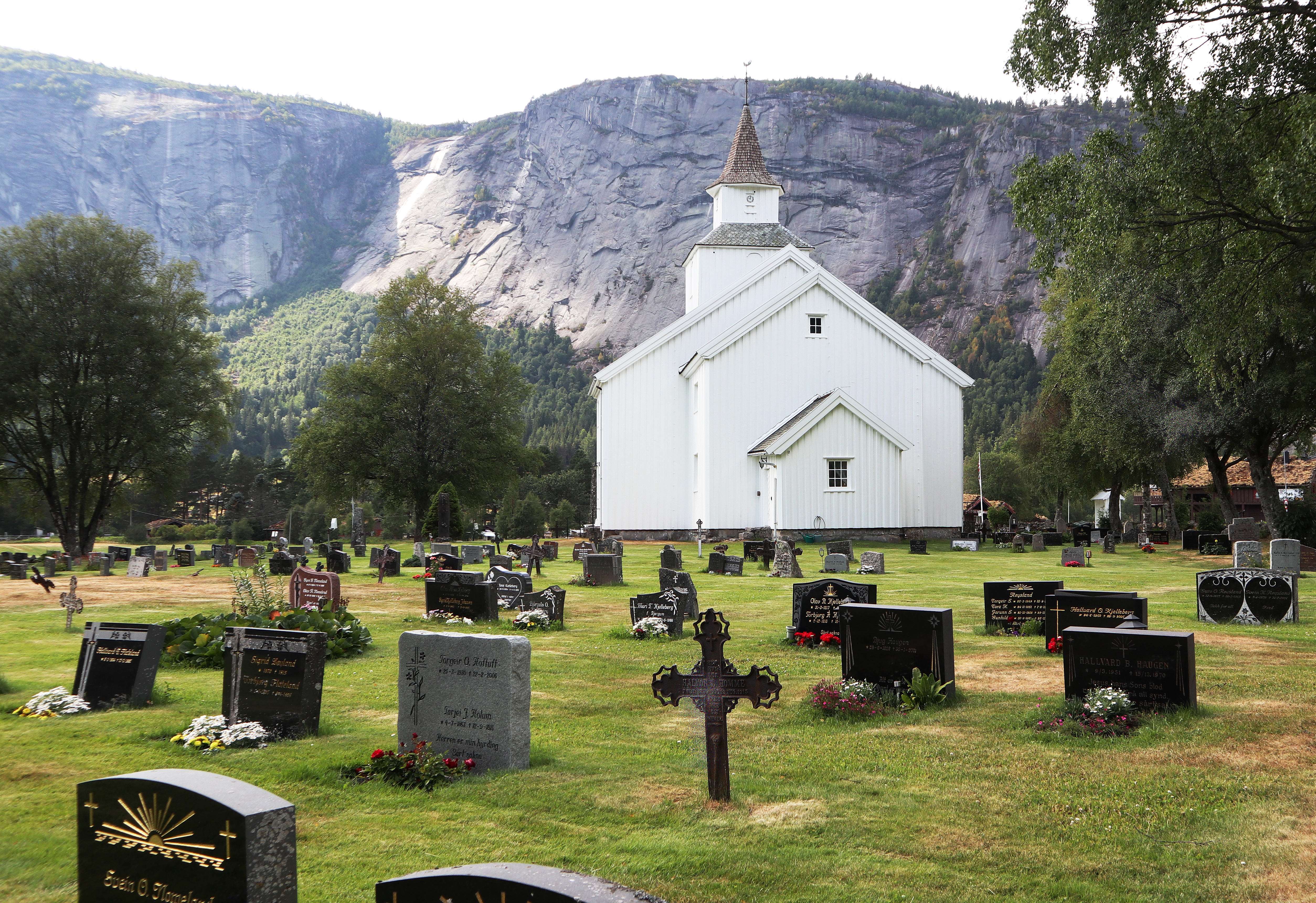 Valle Kirke with an iron cross